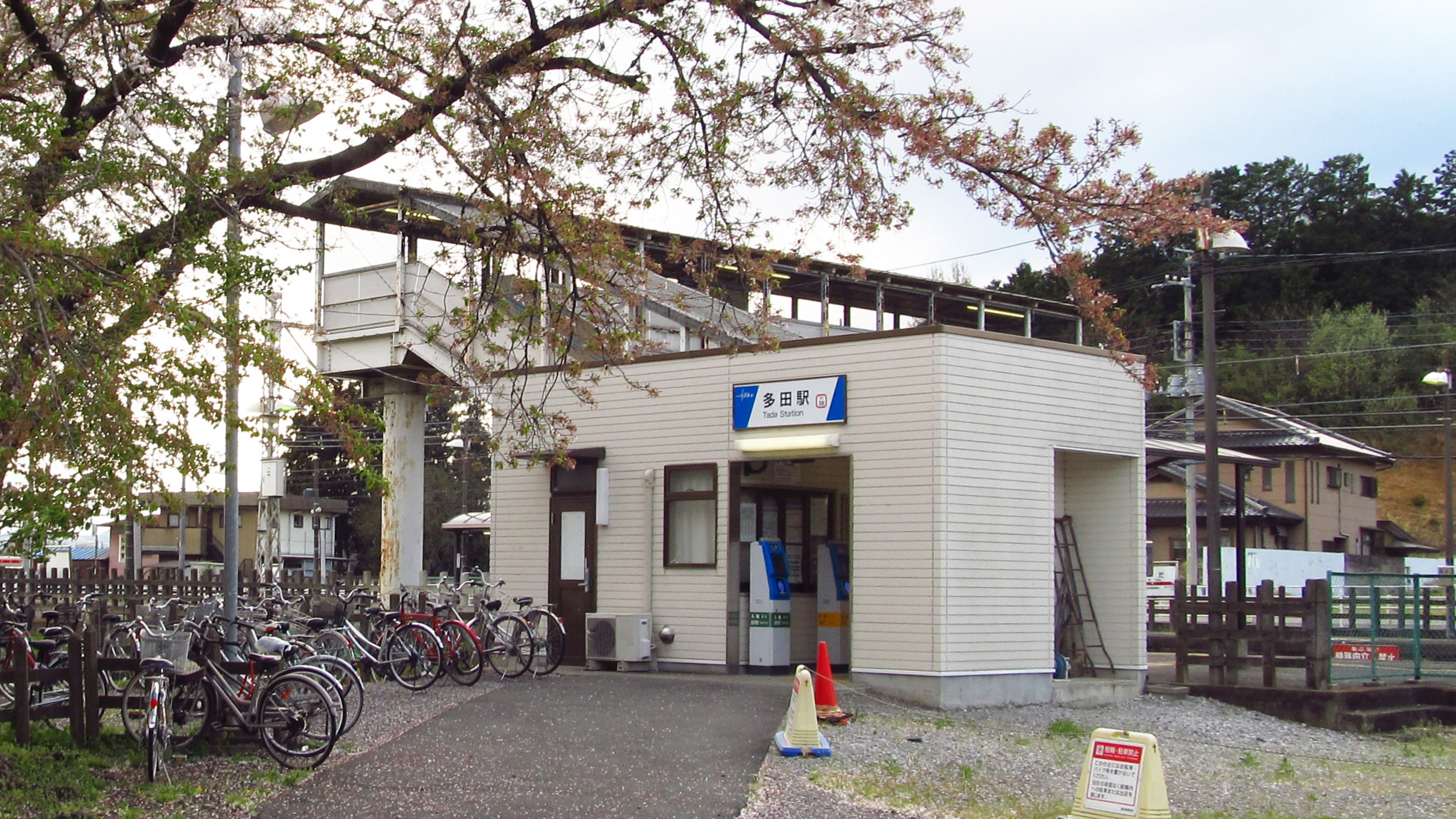 Tada Station on the Tobu Sano Line in Tochigi Prefecture, Japan